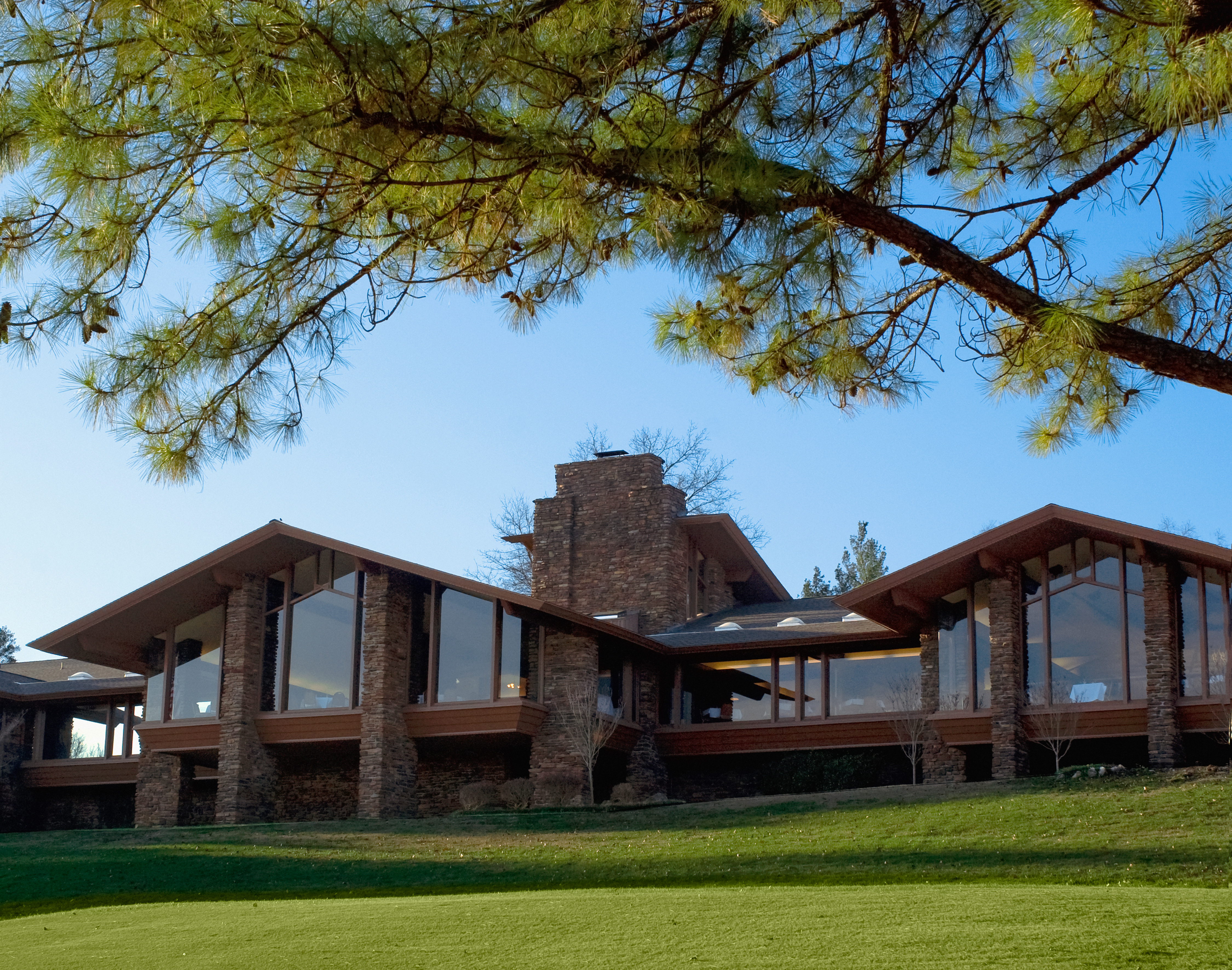 98 Clubhouse Dr, Bella Vista, AR.